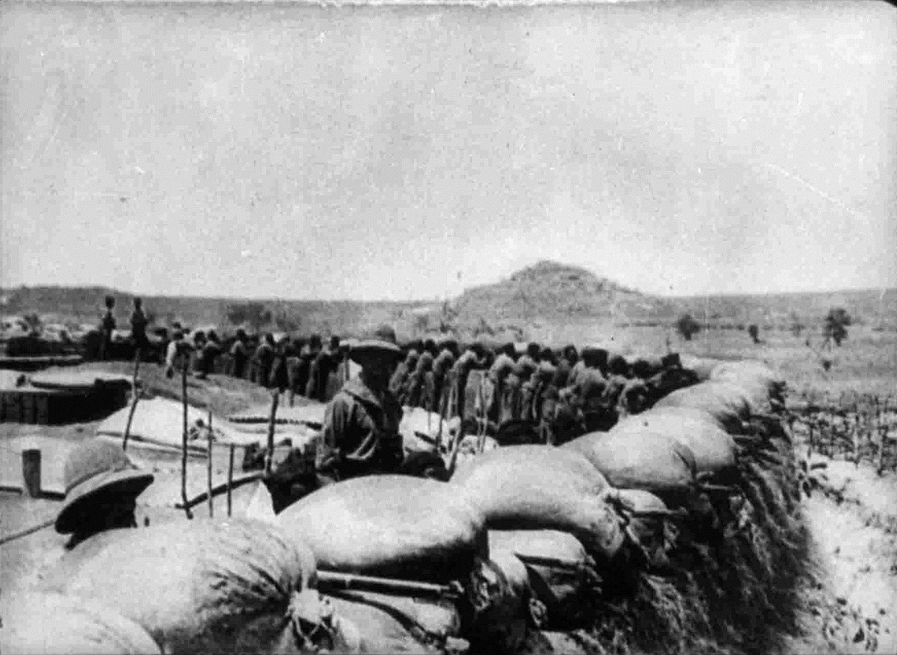 German troops at the fortifications at Garua during the Kamerun Campaign (1914-1916)